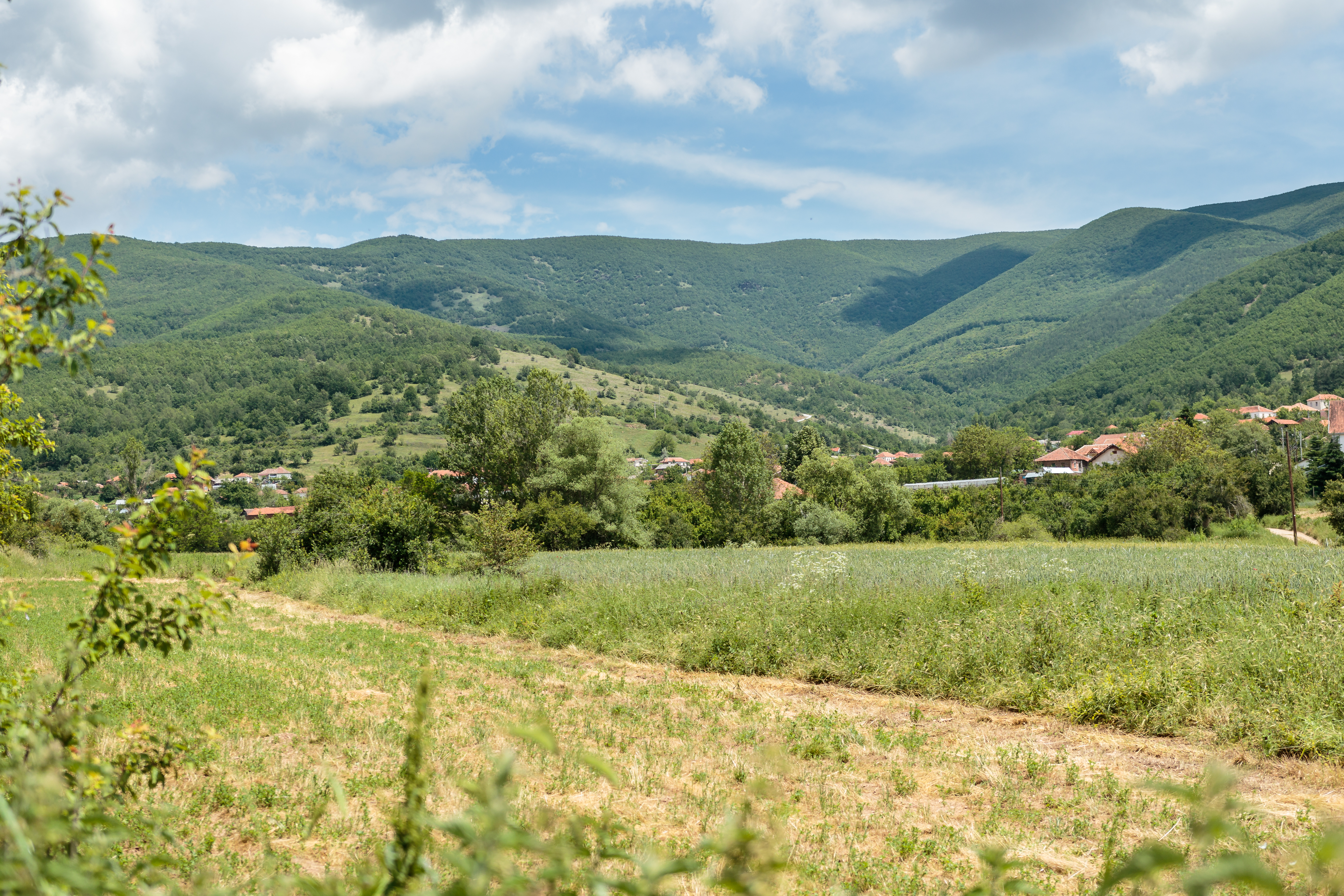 View of the village Žurče